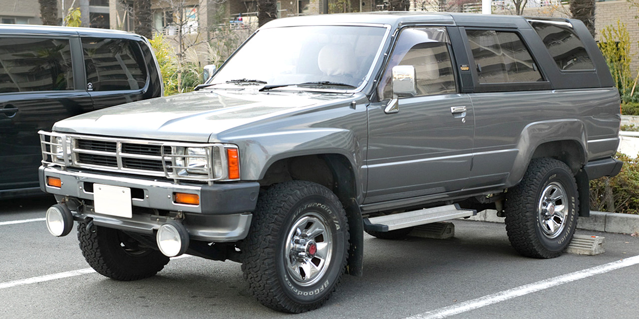 1987-1989 Toyota Hilux Surf Wagon 2.0 SSR Limited ( YN60G )